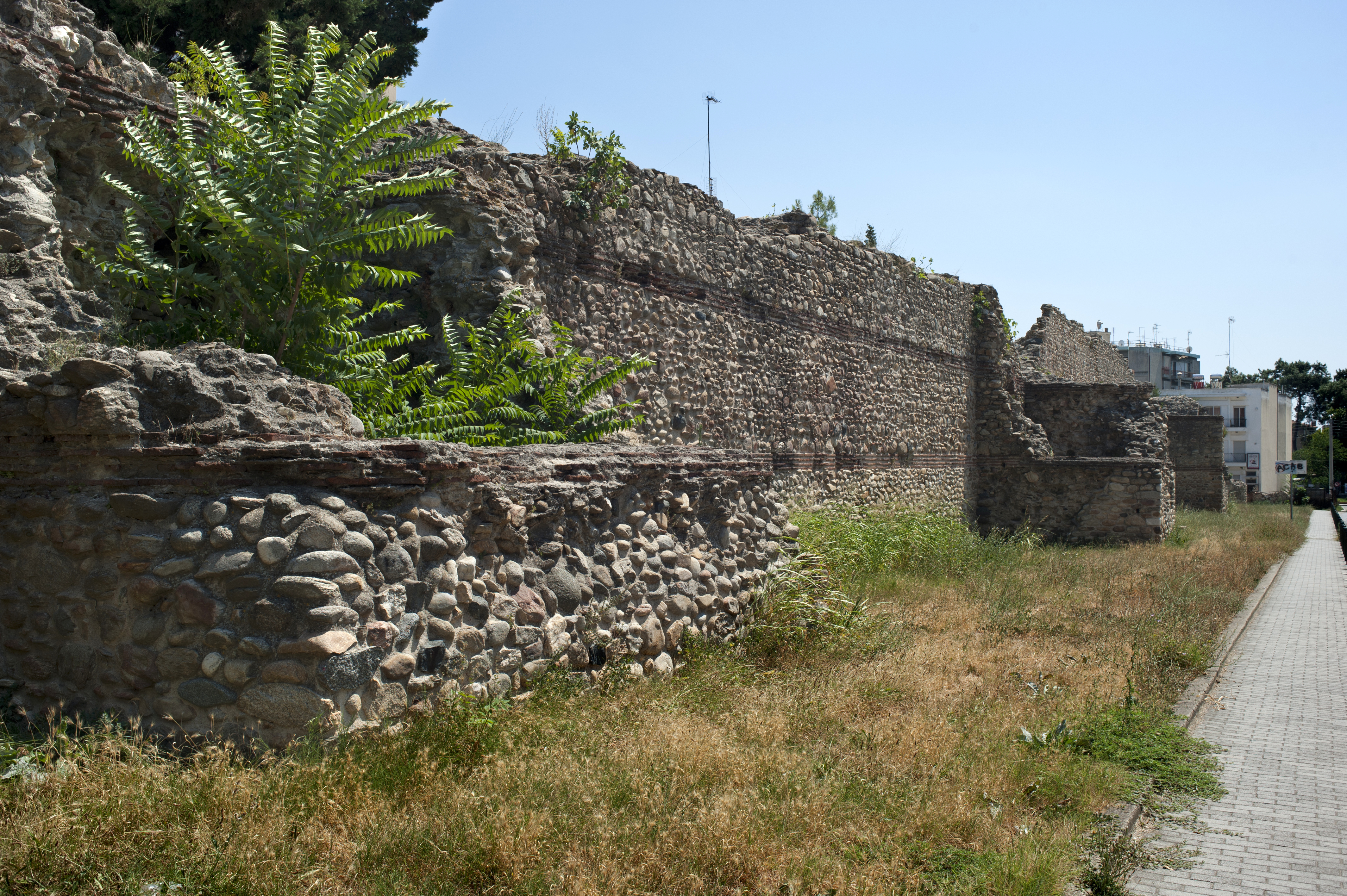 Byzantine fortress "frourio", Komotini, Thrace, Greece.